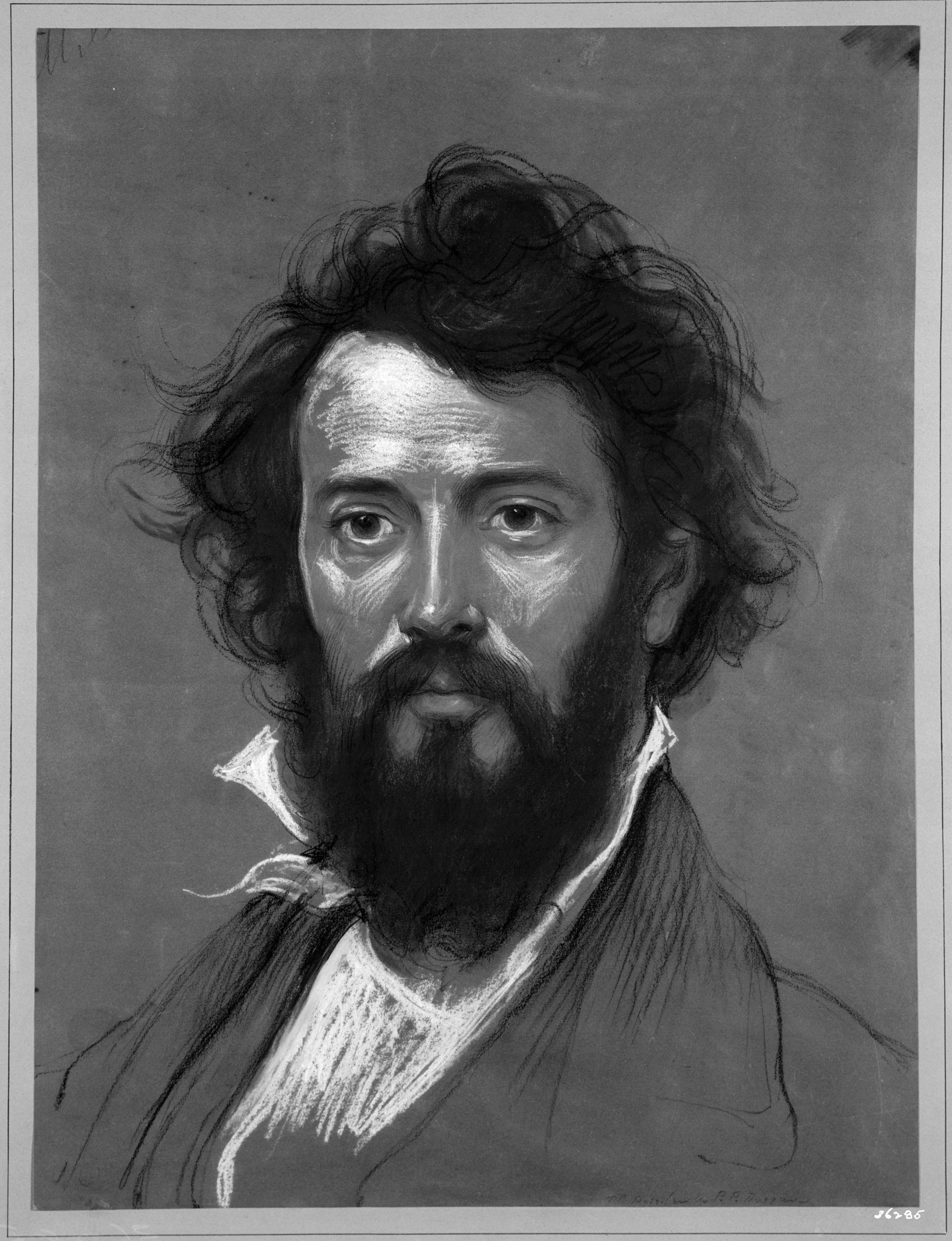 Peter Paul Duggan (died 1861), "Thomas Pritchard Rossiter," undated. Black crayon drawing on brown paper, 19 1/8 x 14 3/8 in.